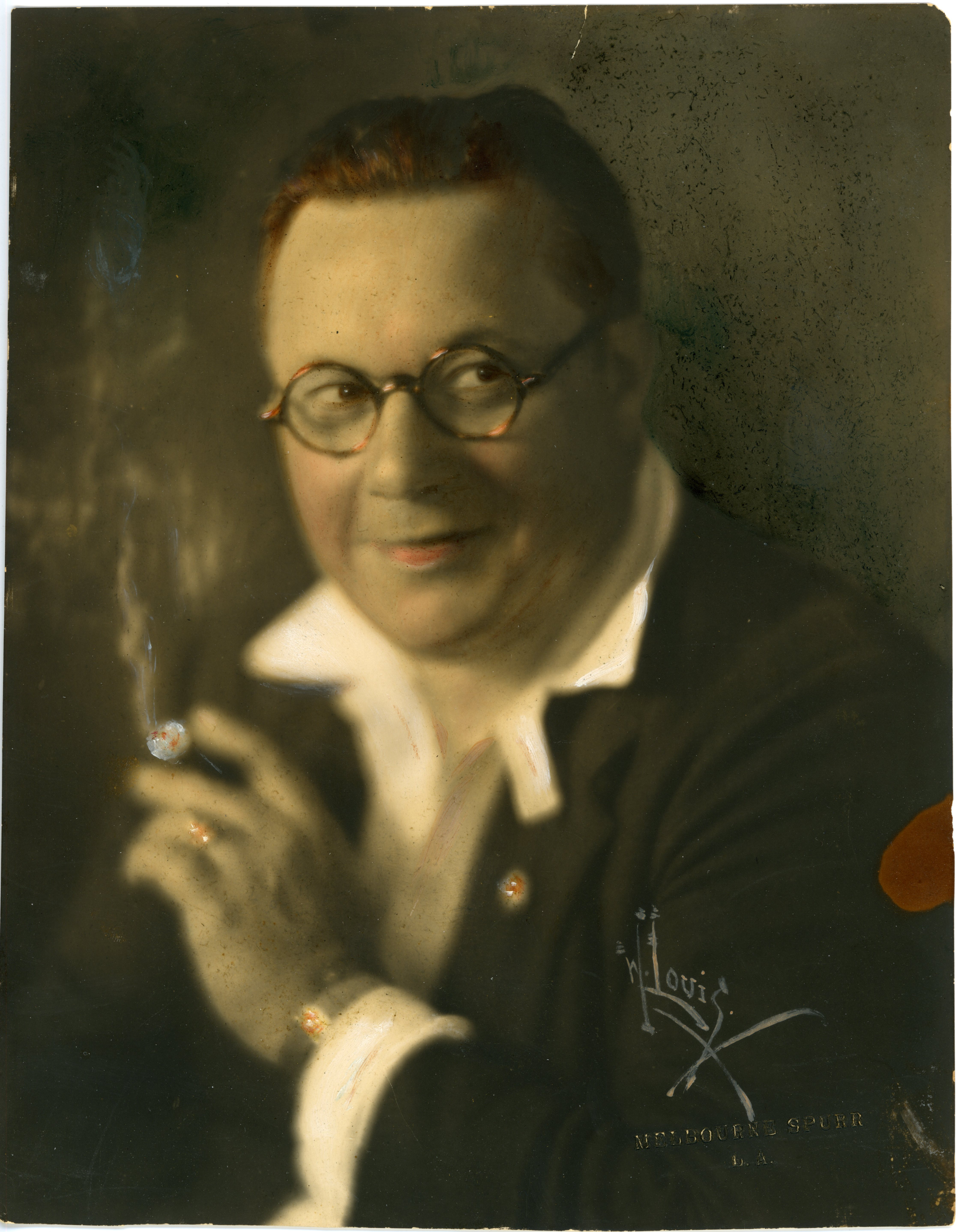 photograph of character actor Willard Louis